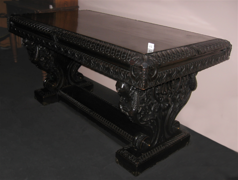 Photo of table built by Willard M. Mitchell and in the permanent collection of the New Brunswick Museum, Saint John, New Brunswick, Canada. Picture was taken by the uploader, with permission. I have straighten, cropped, and selectively lightened the image. I have also removed foreground elements that were not relevant. This image is intended to illustrate my article on Willard M. Mitchell.